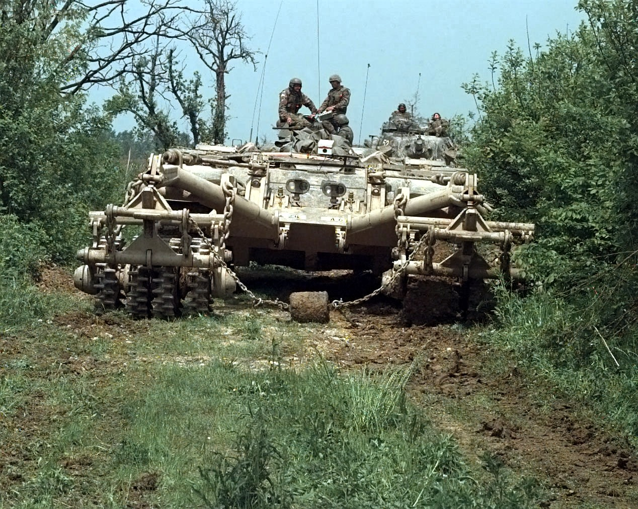 A remotely controlled Panther armored mine clearing vehicle leads a column of armored vehicles down a road near McGovern Base, in Bosnia and Herzegovina on May 16, 1996, during Operation Joint Endeavor. The Panther, based on a modified M-60 tank hull, uses metal rollers to set off contact or magnetic mines. The Panther is being operated by the 23rd Engineer Battalion, 1st Brigade, 1st Armored Division. DoD photo by Staff Sgt. Jon Long, U.S. Army.